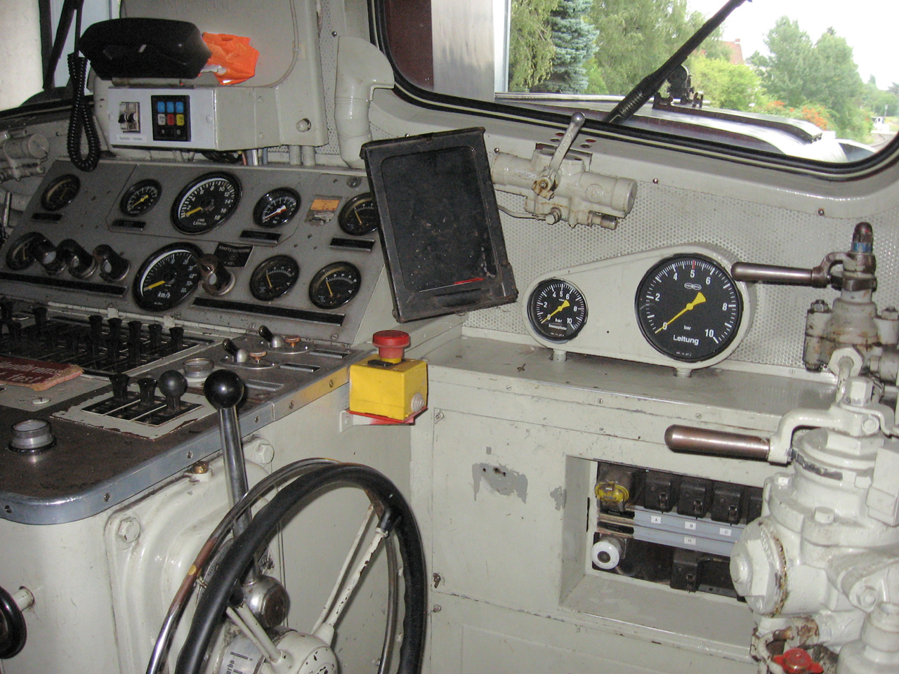 Driver Cab of Deutsche Bundesbahn class 360 diesel locomotive